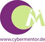 CyberMentor Logo (mini)